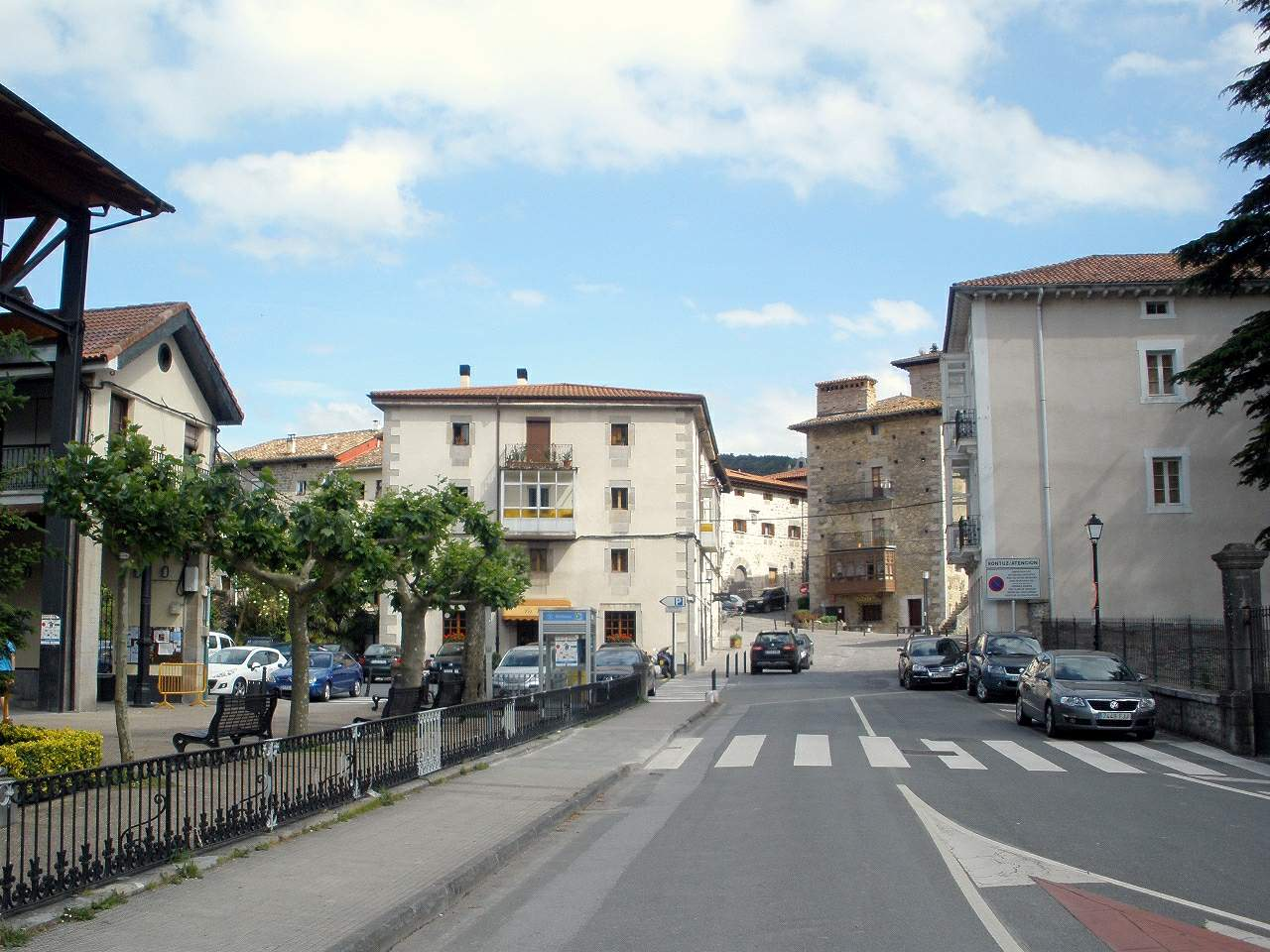 Arceniega (Álava)